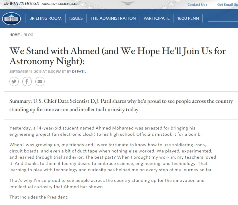 We Stand with Ahmed (and We Hope He'll Join Us for Astronomy Night): SEPTEMBER 16, 2015 AT 8:00 PM ET BY DJ PATIL Summary: U.S. Chief Data Scientist D.J. Patil shares why he's proud to see people across the country standing up for innovation and intellectual curiosity today. Yesterday, a 14-year-old student named Ahmed Mohamed was arrested for bringing his engineering project (an electronic clock) to his high school. Officials mistook it for a bomb. When I was growing up, my friends and I were fortunate to know how to use soldiering irons, circuit boards, and even a bit of duct tape when nothing else worked. We played, experimented, and learned through trial and error. The best part? When I brought my work in, my teachers loved it. And thanks to them it fed my desire to embrace science, engineering, and technology. That learning to play with technology and curiosity has helped me on every step of my journey so far. That’s why I’m so proud to see people across the country standing up for the innovation and intellectual curiosity that Ahmed has shown. That includes the President